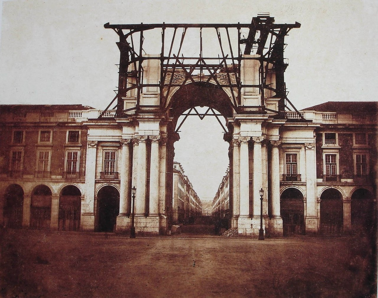 The Triumphal Arch that links Augusta Street and the Commerce Square, while it was being built (c. 1862-1873), in Lisbon, Portugal.